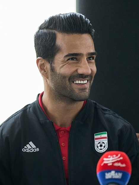 Masoud Shojaei, Iran-Bolivia prematch conference.jpg